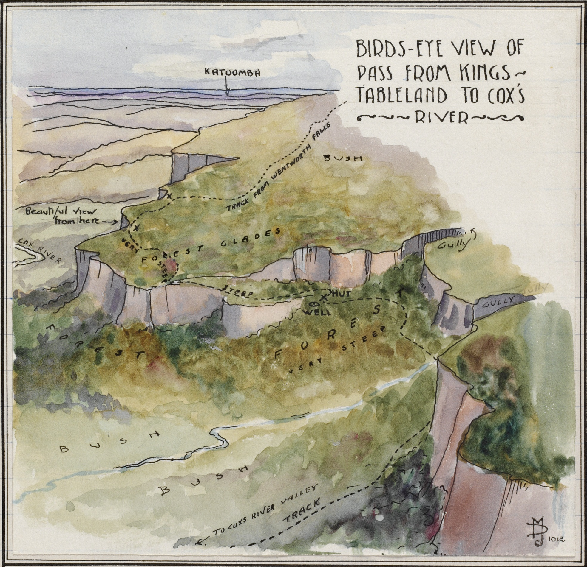 Image from the papers of Myles Dunphy, relating to bushwalks in the Blue Mountains